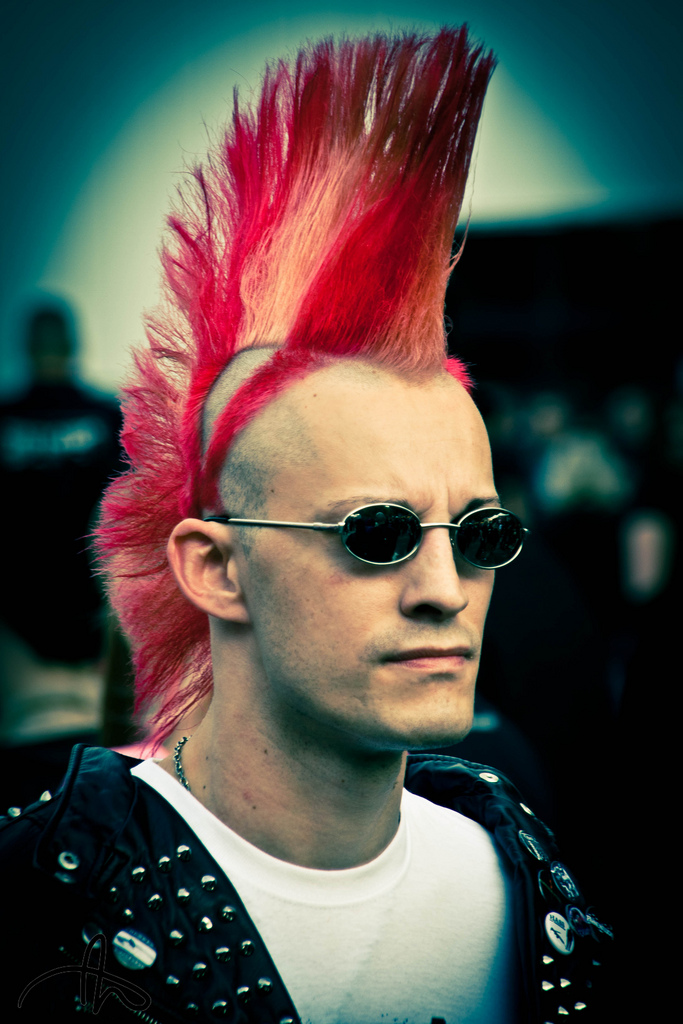 One of the portraits I took at the Wave-Gotik-Treffen 2011 in Leipzig/Germany.